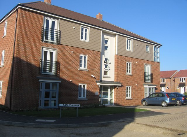 Egerton Drive Flats on the corner with Gardiner Road. A designated 'medium density' area.